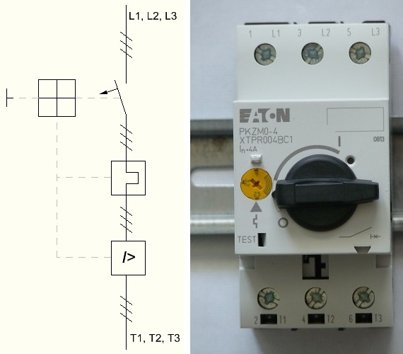 motor-protective circuit breaker and it's symbol